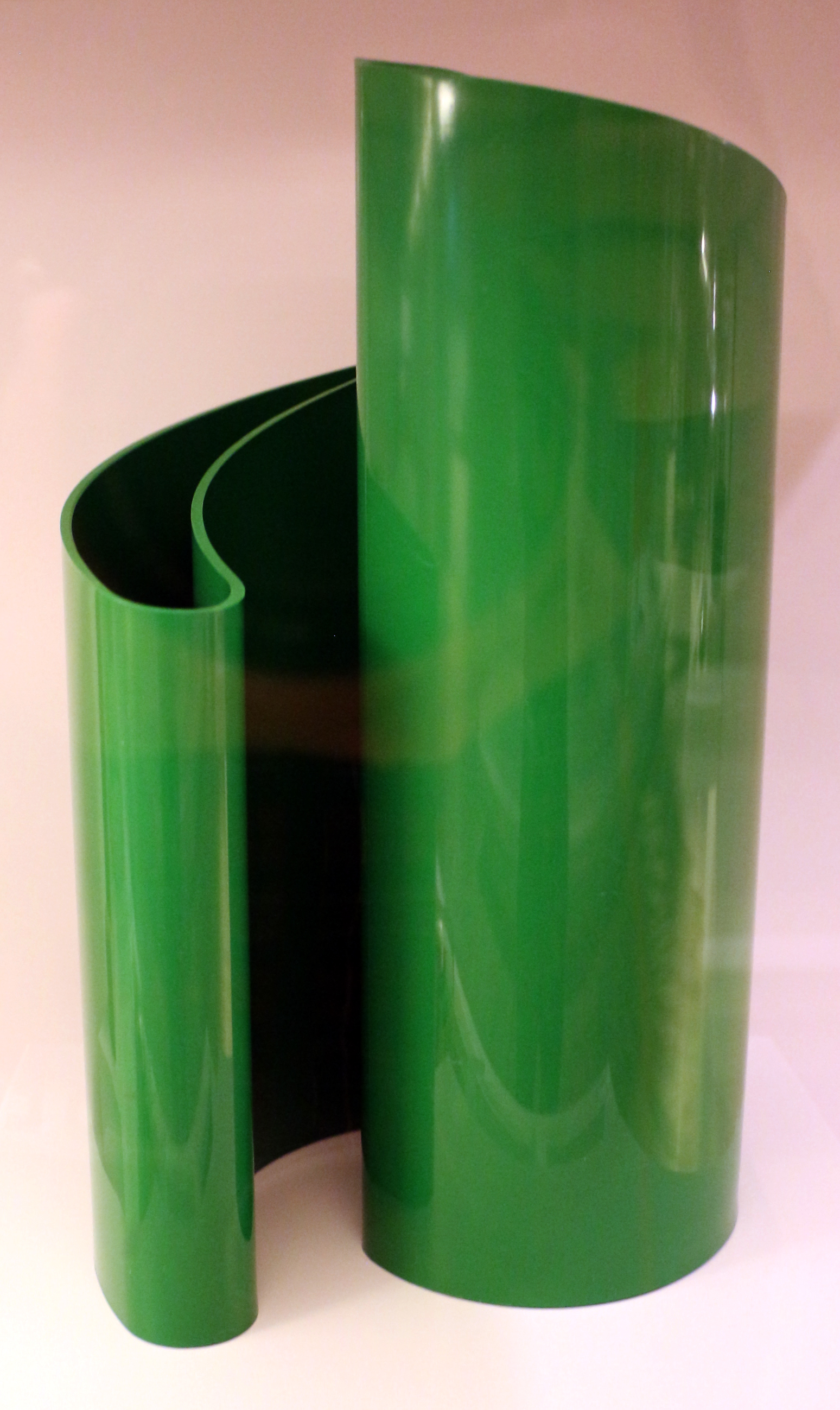 Collections of the Indianapolis Museum of Art